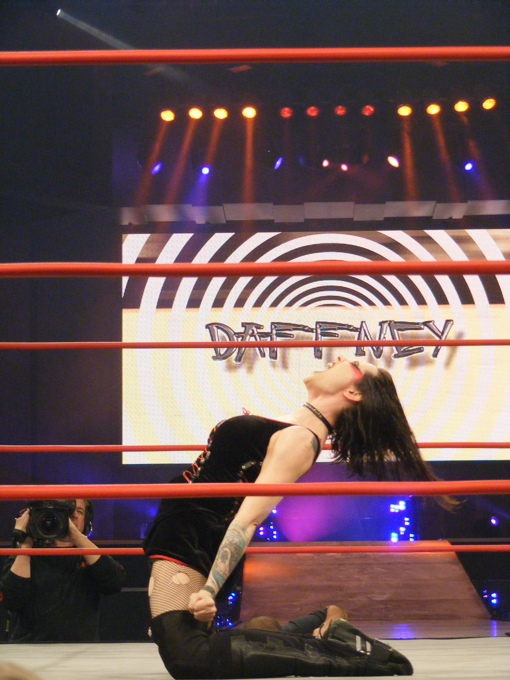 Daffney psychs up before her match with ODB with her trademark scream during a TNA Impact Taping.